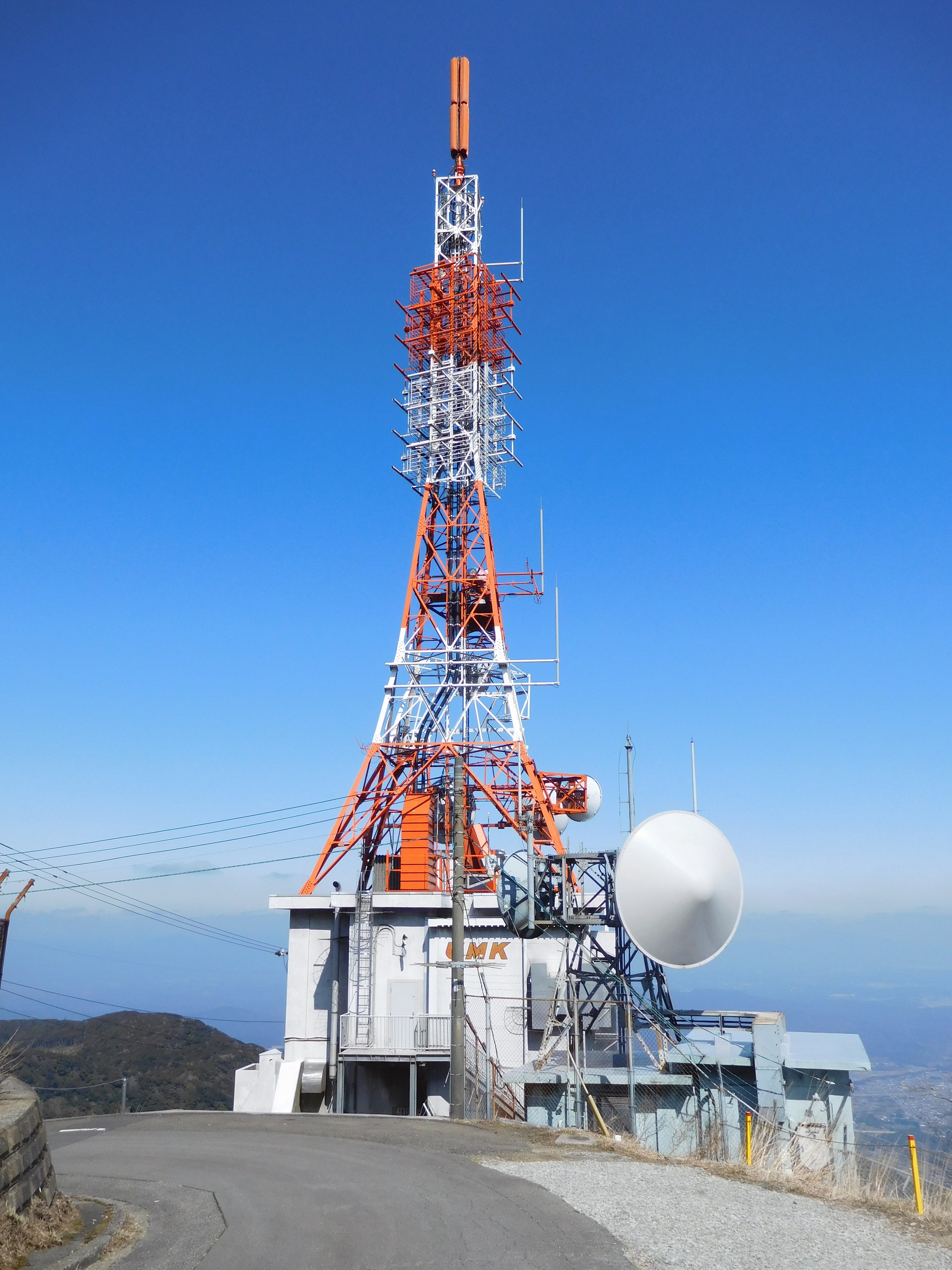 UMK (TV Miyazaki)/FM Miyazaki Wanitsukayama Transmitting Tower in 2016 (Miyazaki City, Japan)